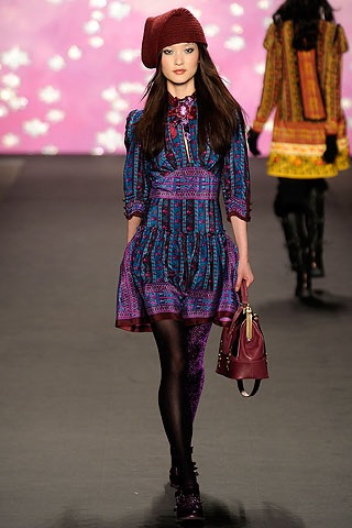 Du Juan in a purple and blue dress walks the catwalk at the Anna Sui FW 2009 show.